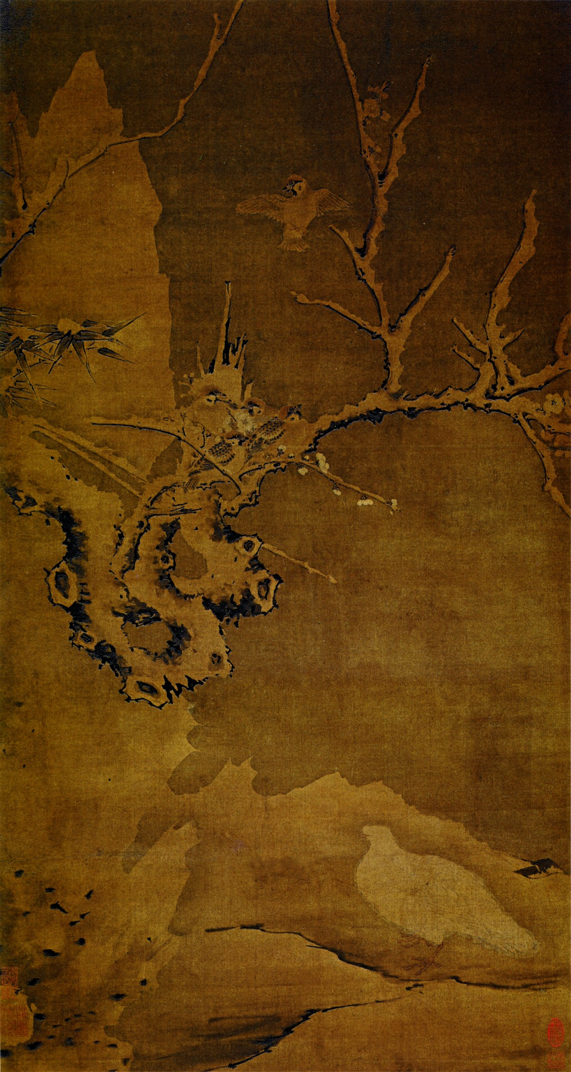 Snow, Bird, Plum, and Bamboo, hanging scroll, color on silk, 116.5 x 61.4 cm. Located at the Palace Museum.